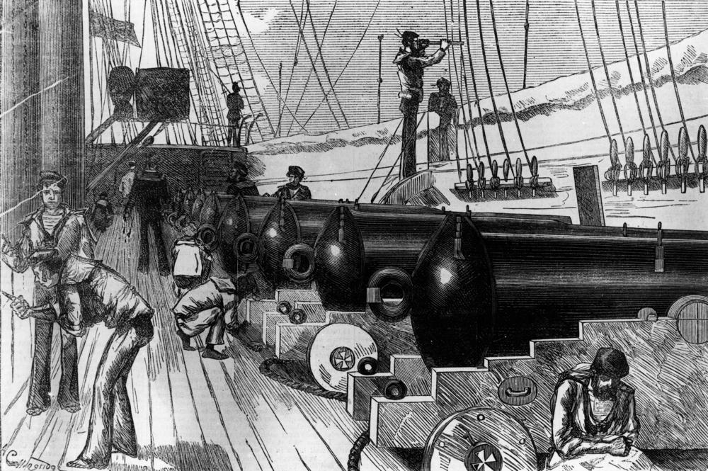 Gun deck of H.M.S. Wolverene, 1881. Copy of an illustration from the Town and Country Journal. Artist's name Colleridge?.